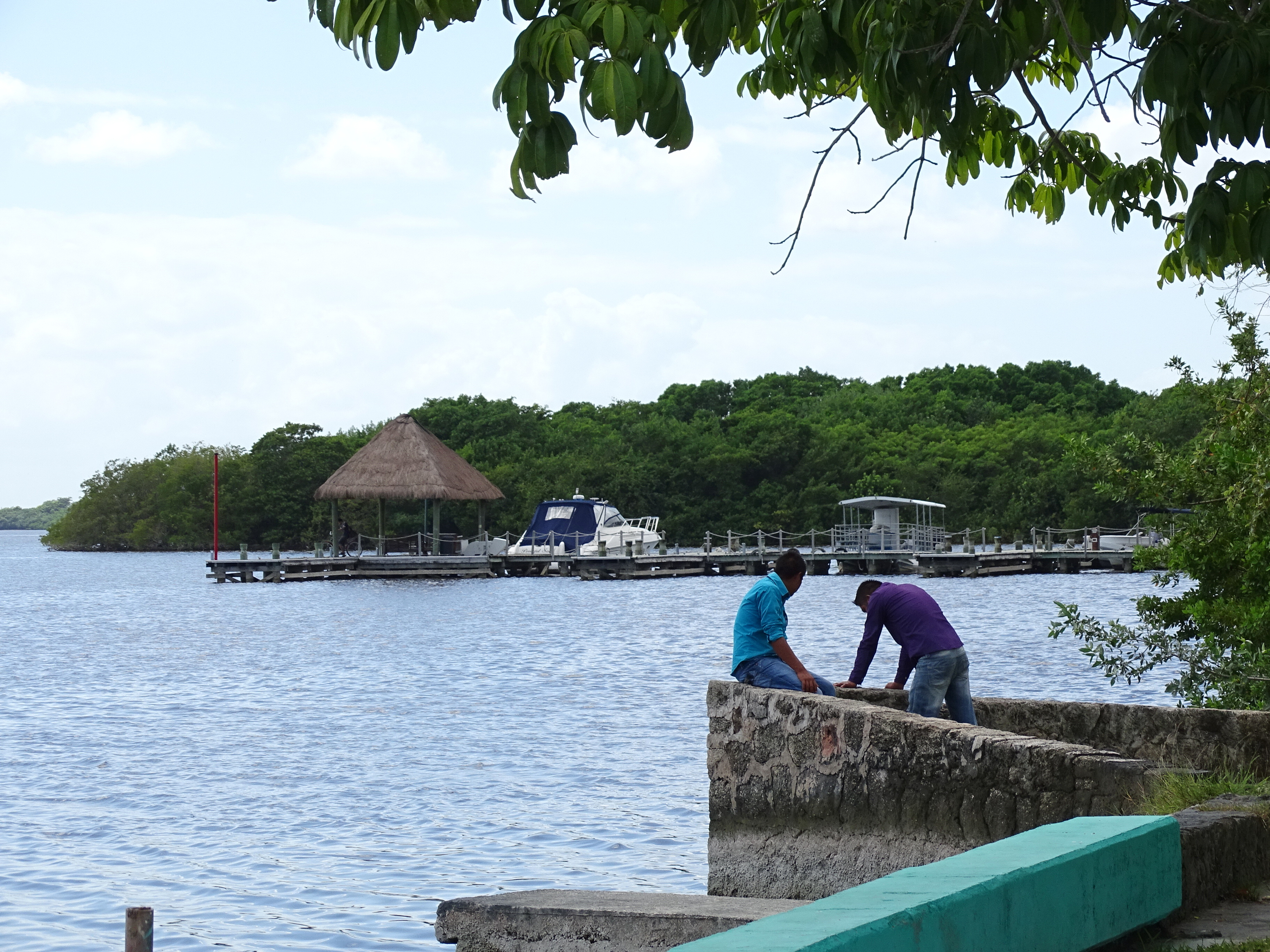 Bay View - Chetumal - Quintana Roo - Mexico